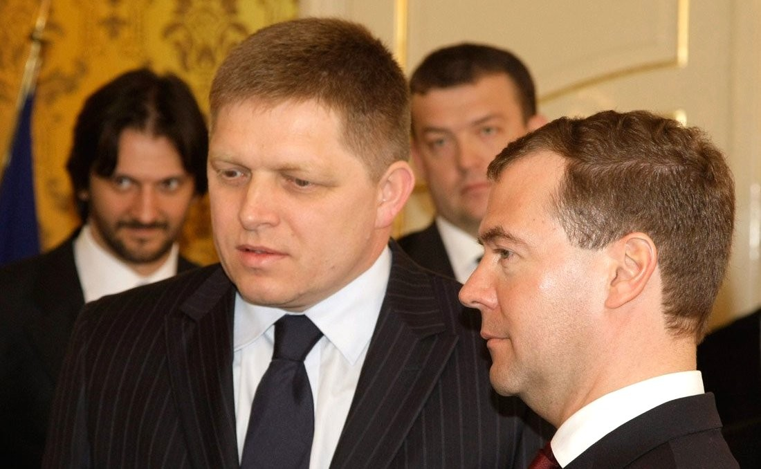 With Prime Minister of Slovakia Robert Fico.